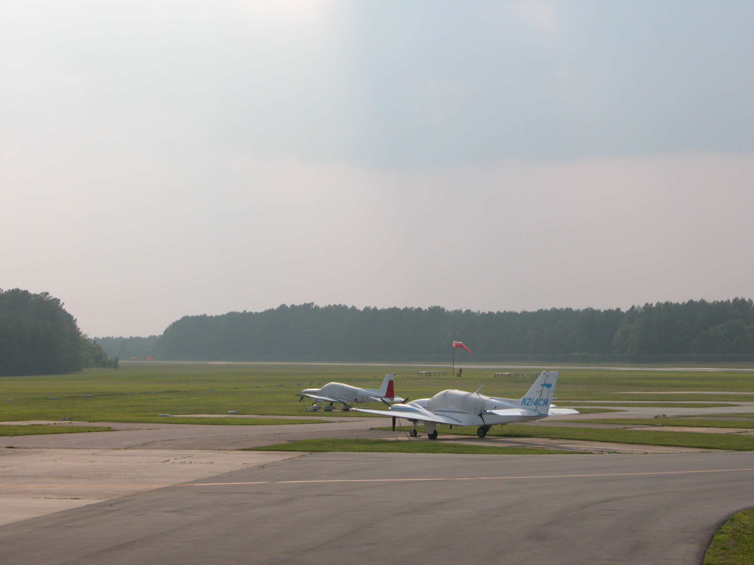 Parked airplanes at Horace Williams Airport in Chapel Hill, North Carolina.